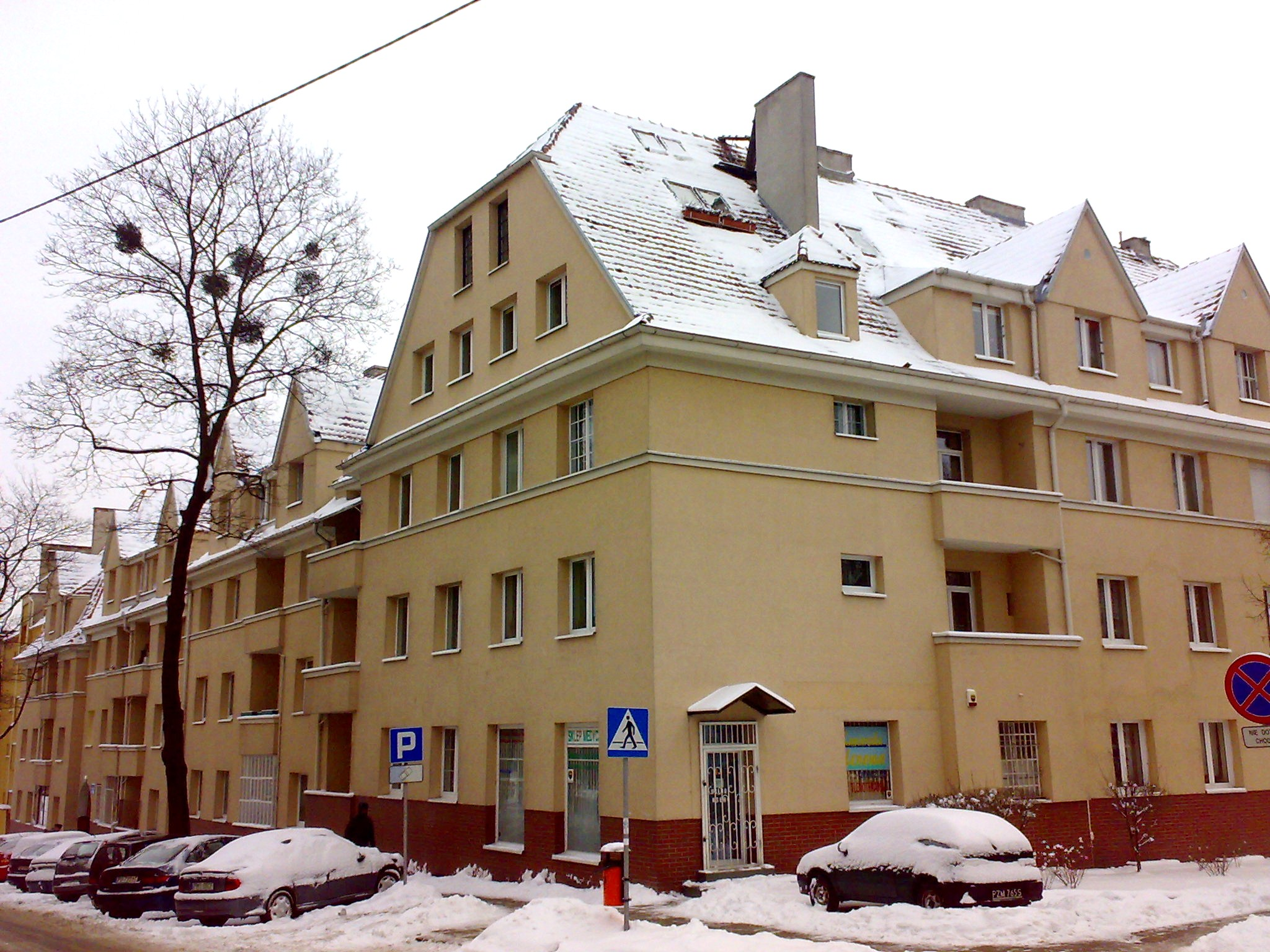 Czajcza Street, Poznan.